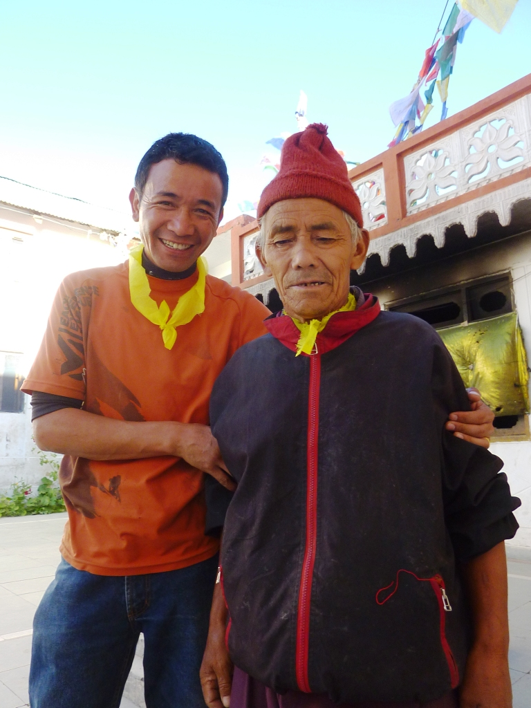 I took this photo while on pilgramage this year